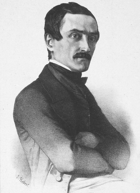 Portrait of Alexandre Calame (28 May 1810 – 19 March 1864)